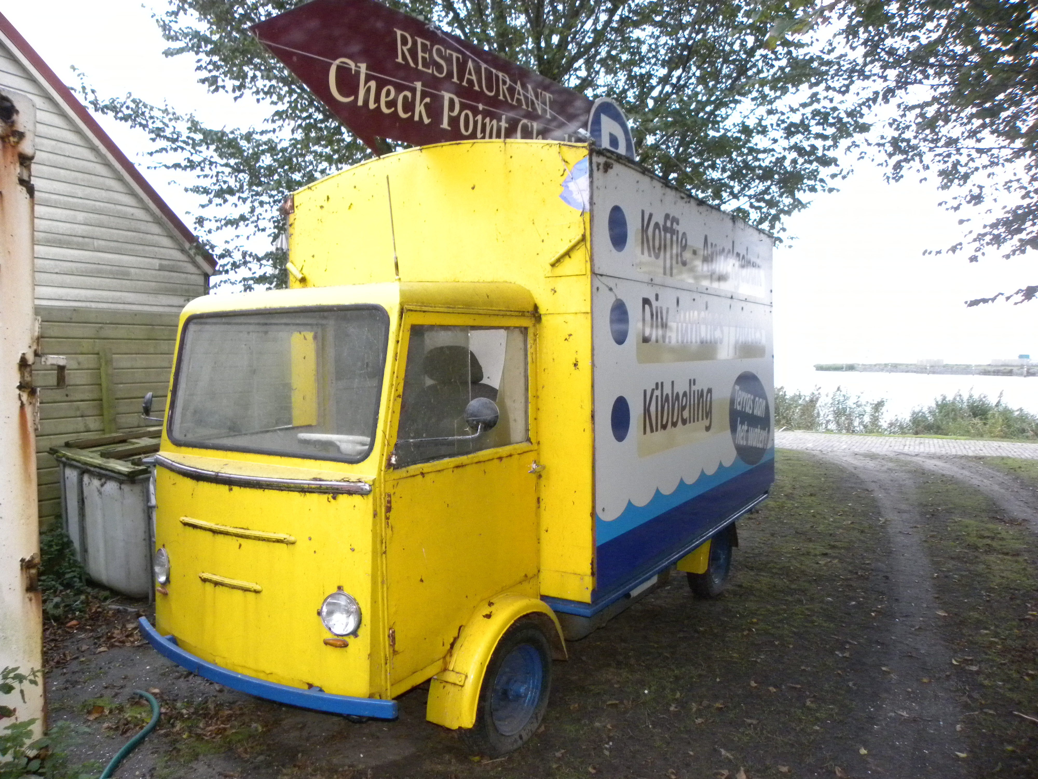 presumed to be Cock from Assen its not an electric driven truck , since it had an exhaust system (for providing truck name and info thanks to Louis van Telgen)